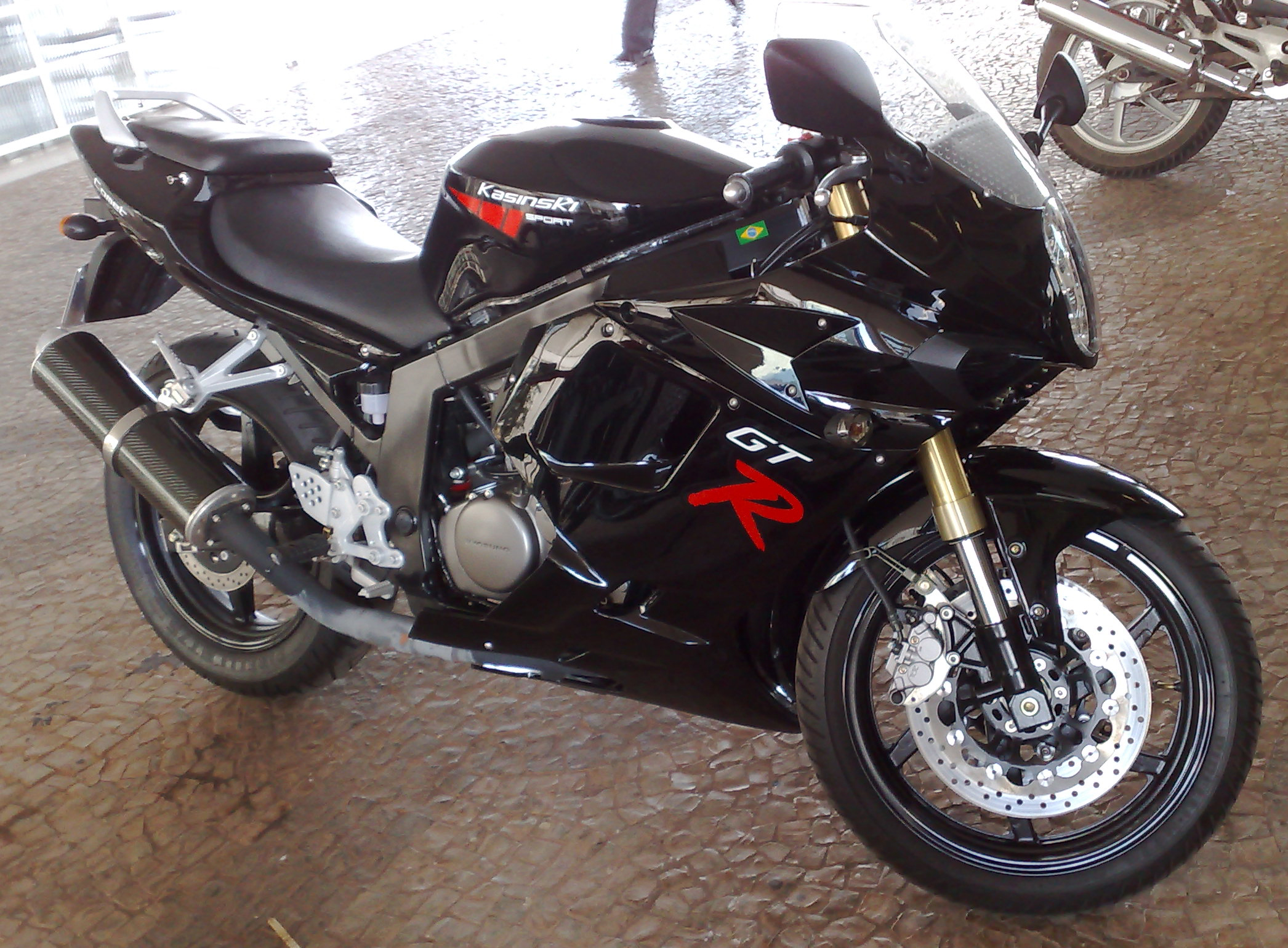 Motorcycle Kasinski Comet GTR 250cc from Brazil